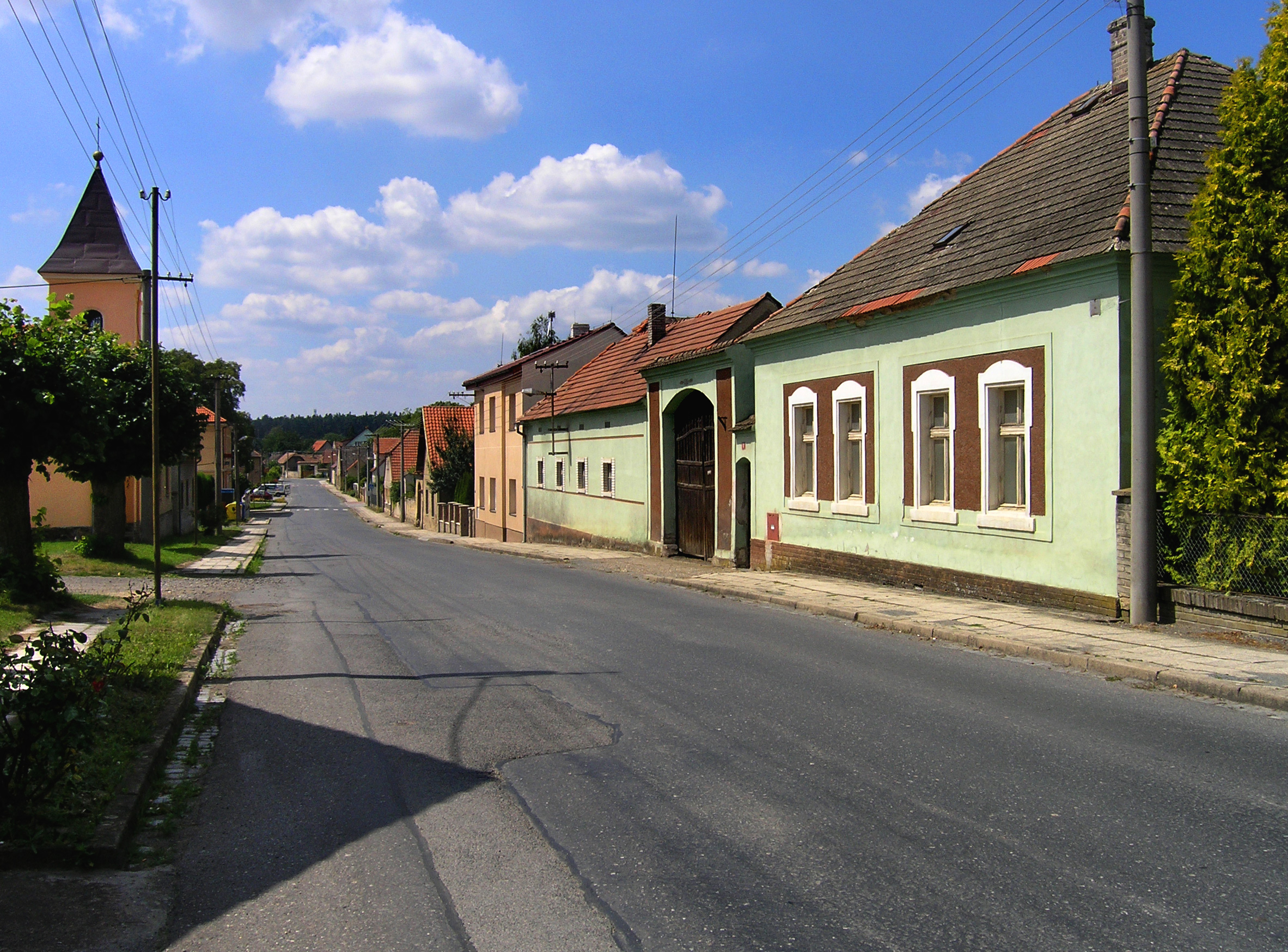 Main street in Horní Bezděkov, Czech Republic